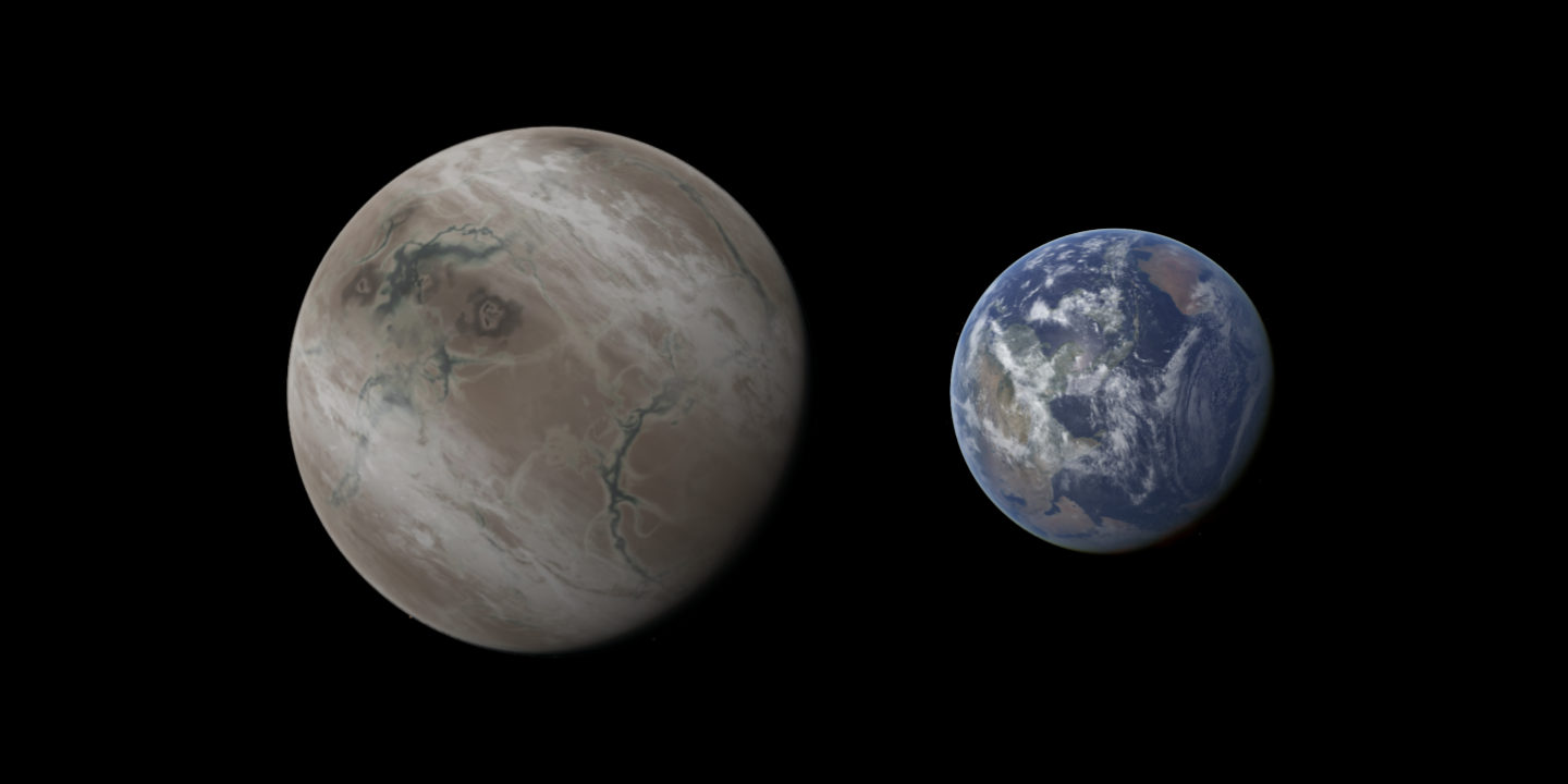 This image compares Kepler-452 b, a potentially habitable exoplanet, with Earth in terms of size.